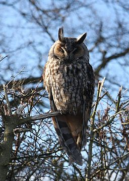 Photo by Bob Jones/WikimediaCommons